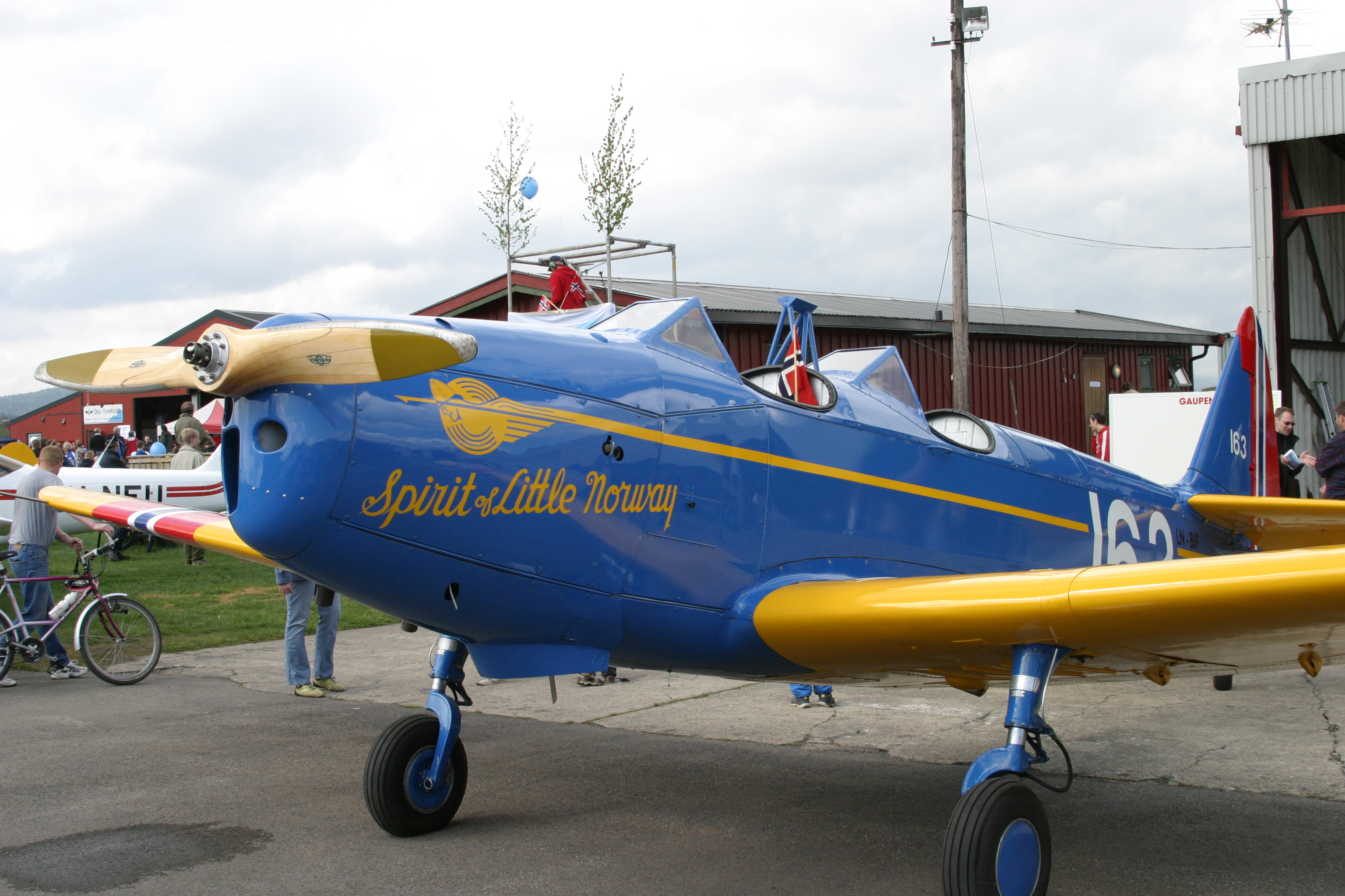 LN-BIF, Fairchild Cornell (build no. T42-7448, serial no. 42-83641. Painted in the colours of PT-19A-FA T41-1014 Spirit of Little Norway, which was struck off register in 1965.